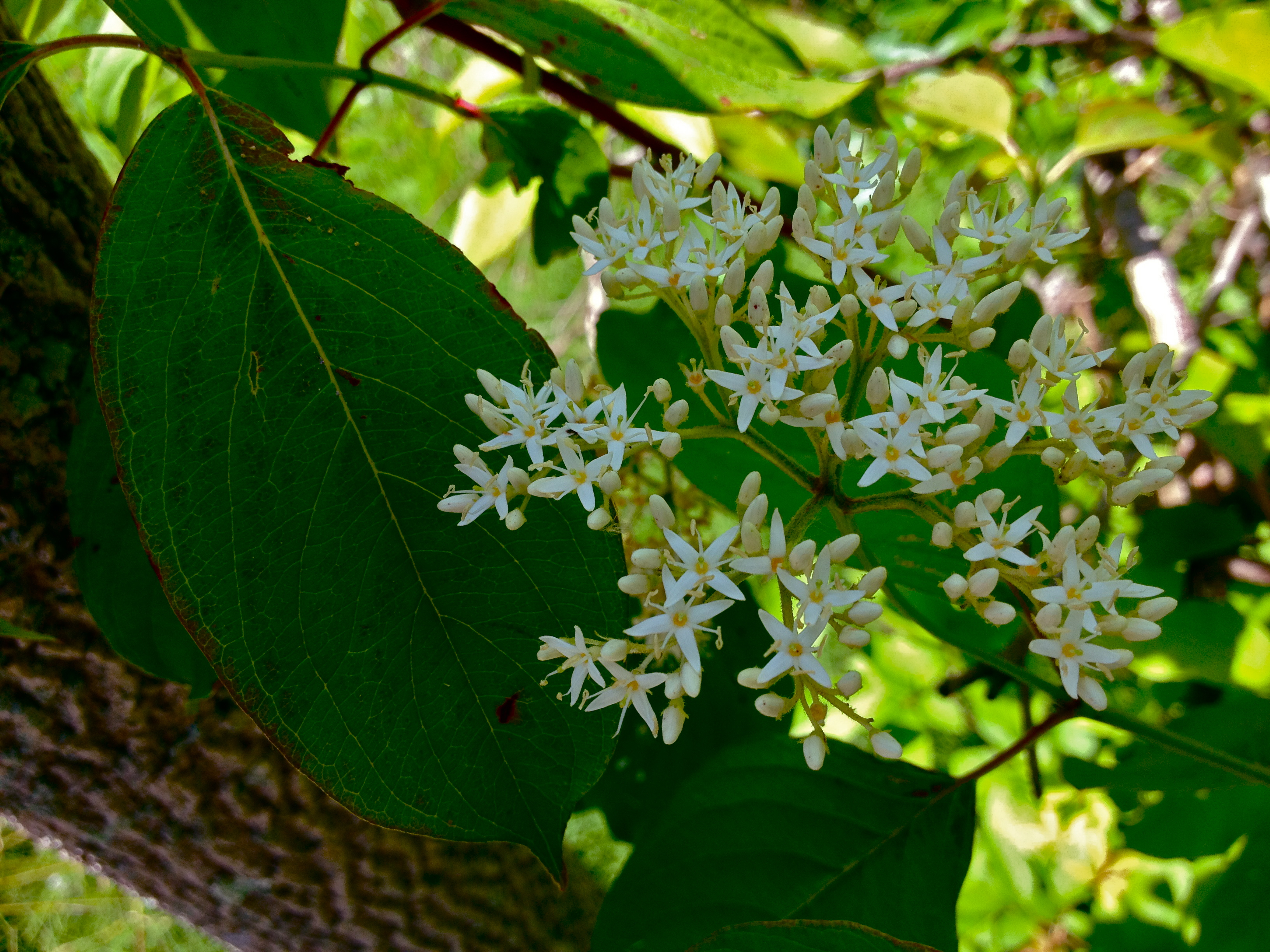 Photo of Cornus amomum in flower. This is a native plant growing wild on Theodore Roosevelt Island, Washington, D.C., USA. This species is a member of the Cornaceae family.